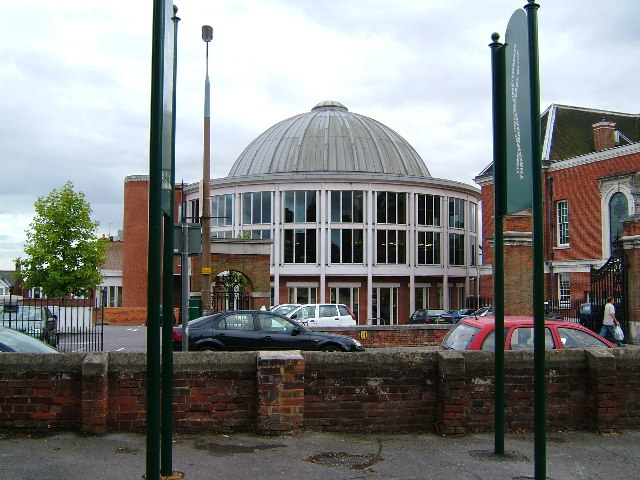 Braintree Library, Fairfield Road, Braintree The magnificent domed roof of this 1.6 million pound building sits majestically over the older historical buildings in the town's Market Place. It was opened to the public in April 1998.